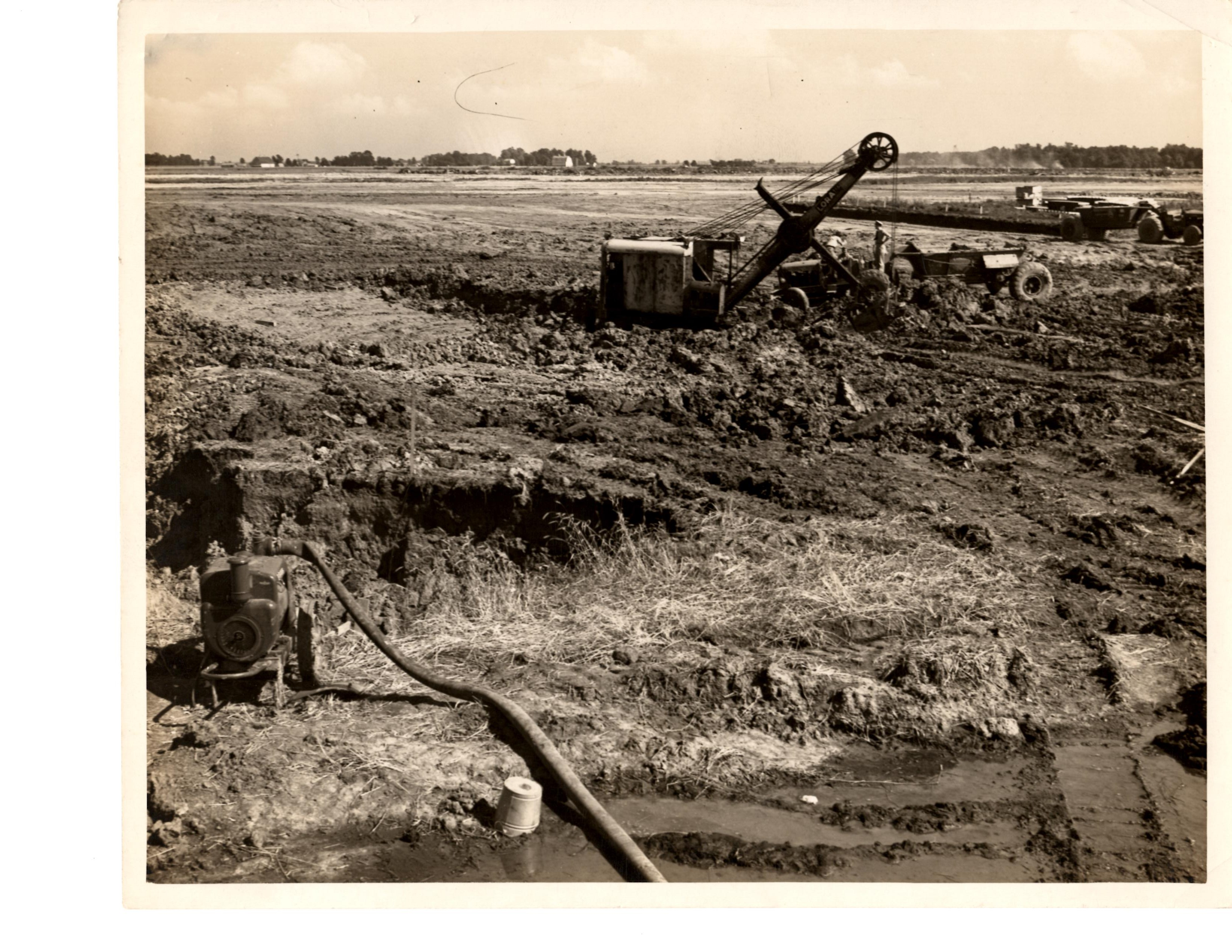 Naval Reserve Air Station Bunker Hill Hager B, 20 June 1942